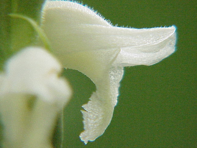 Species: Spiranthes cernua Family: Orchidaceae Image No. 2